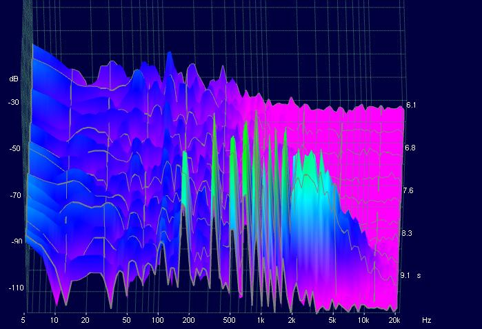 A 3D sound spectrum analysis of a violin's G String using the OscilloMeter program. x=the frequency of pitch, y=the volume, and z=time. Observe the peaks at the foreground. The other low points are background noise. The interesting thing is that the pitch that we hear is the peak at around 200h, but the other peaks are overtones that contribute to the sound, greatly outnumbering the original pitch. You can make out the overtone series for the note G.